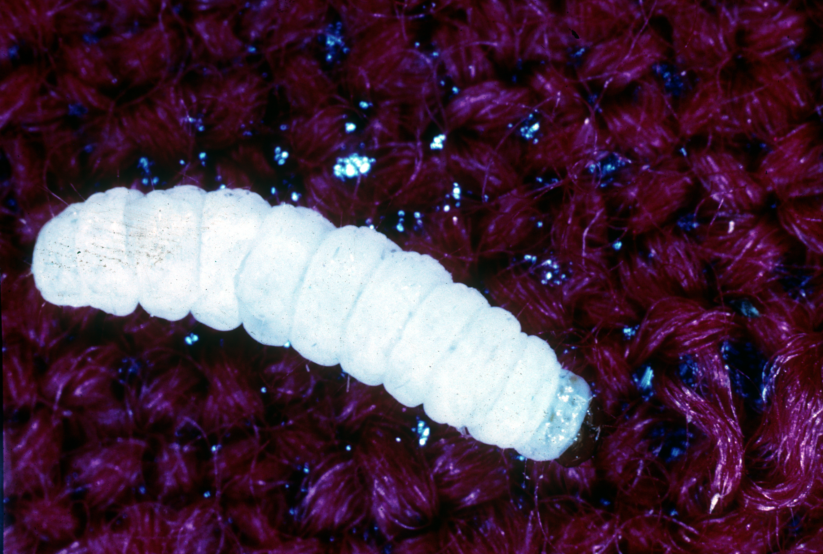 Clothes moths attack a variety of natural materials, and even some synthetic ones, around the home, including carpets. It is the larvae of clothes moths that attack fabrics. The larval stage lasts for one to three months.